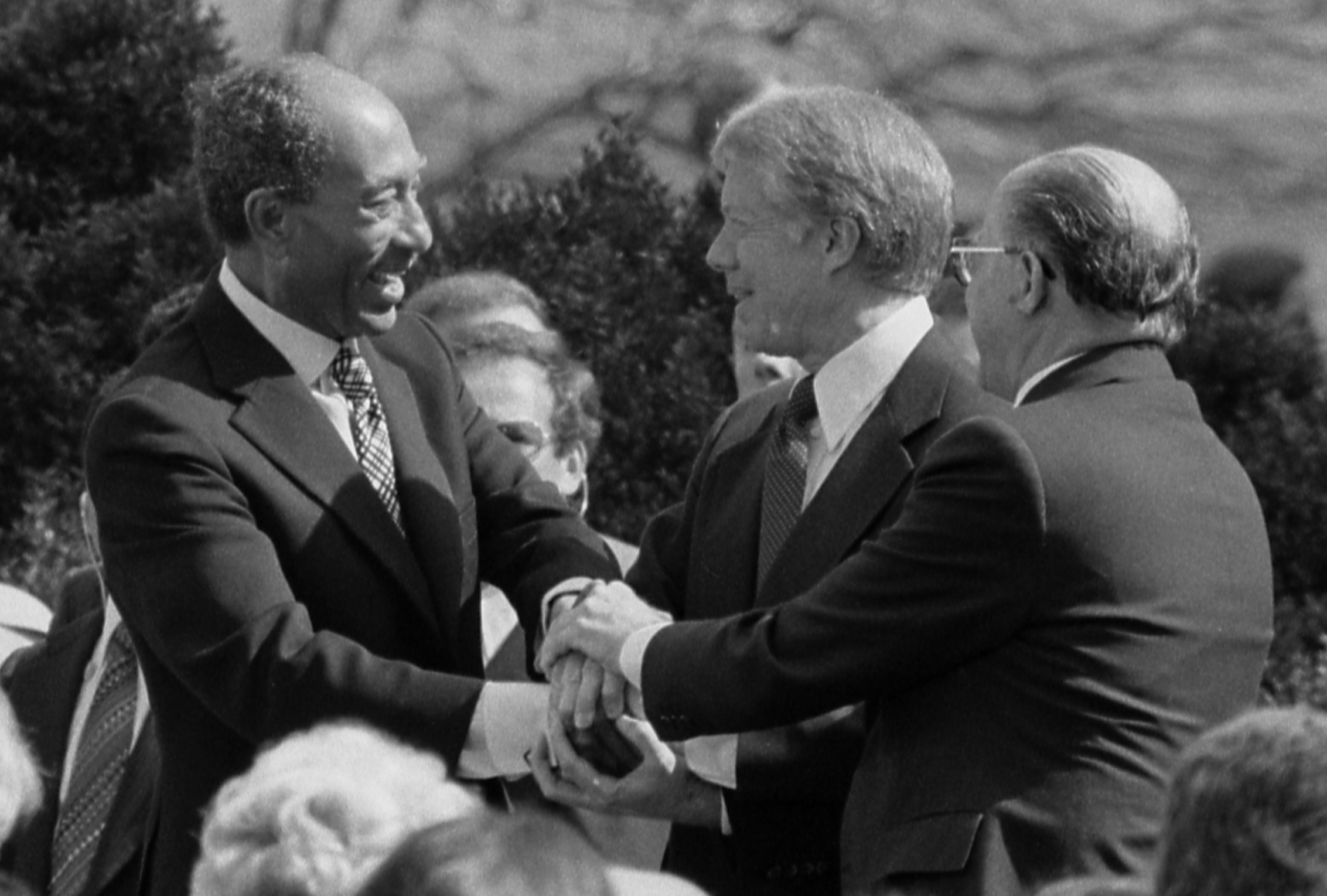 Library of Congress description: "Photograph shows President Jimmy Carter shaking hands with Egyptian President Anwar Sadat and Israeli Prime Minister Menachem Begin at the signing of the Egyptian-Israeli Peace Treaty on the grounds of the White House."